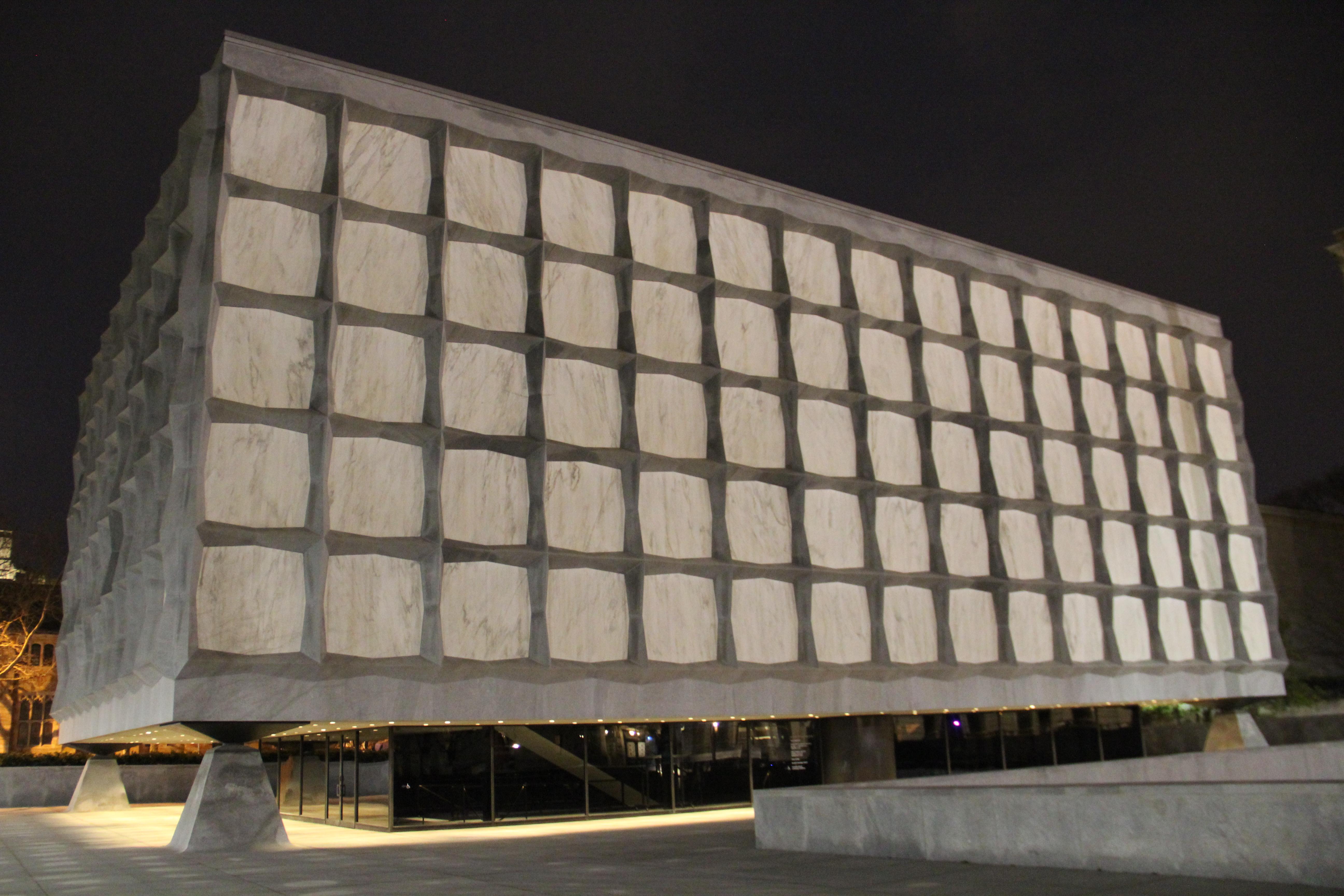 Beinecke Rare Book and Manuscript Library on Hewitt Quadrangle, lit by recessed lighting at night, Yale University, New Haven, CT